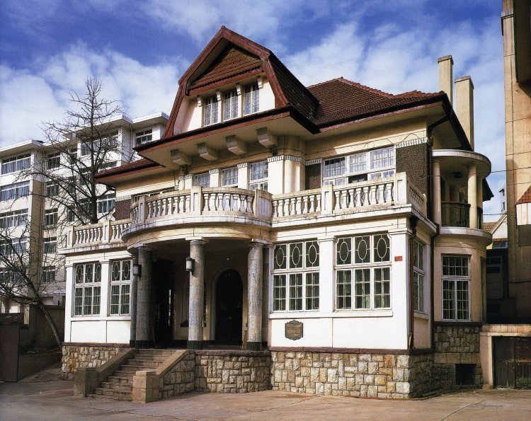 Former villa of General Zhang Zongchang in Dairen (now Dalian City, PRC)